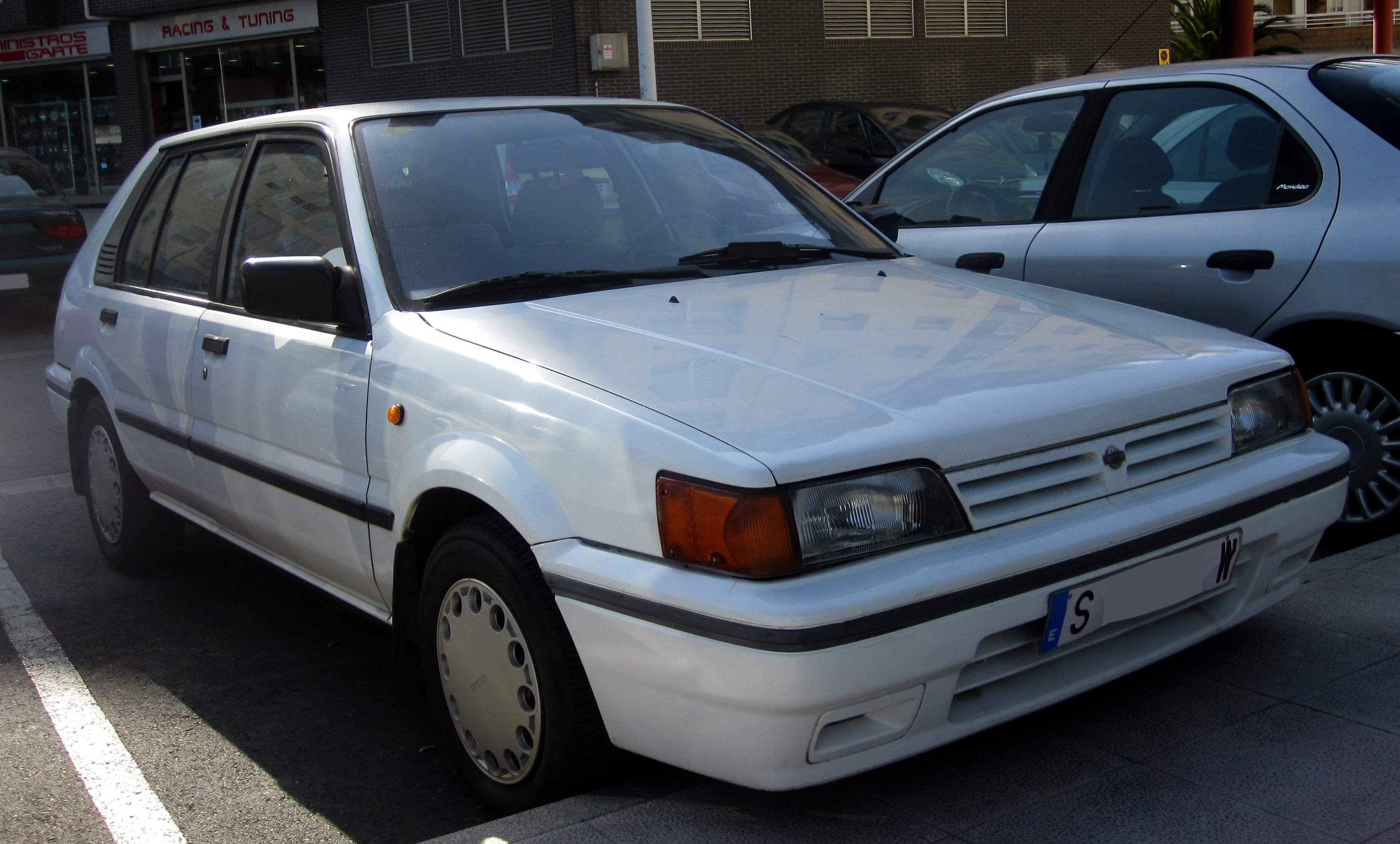 You all are gonna call me mad if I tell you I've been staring at this car for quite a while now. But is so clean... so well cared for... in such mint condition! I love it. Shame the light kind of ruined the photo.